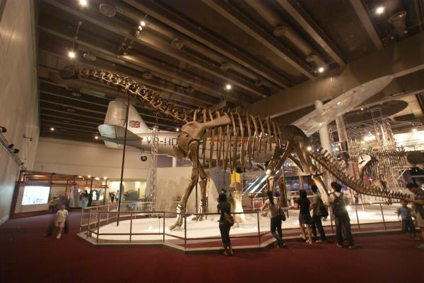 Image of Nuoersaurus chaganensis as displayed in Science Museum, Hong Kong.